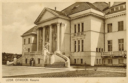 Old casino in Otwock